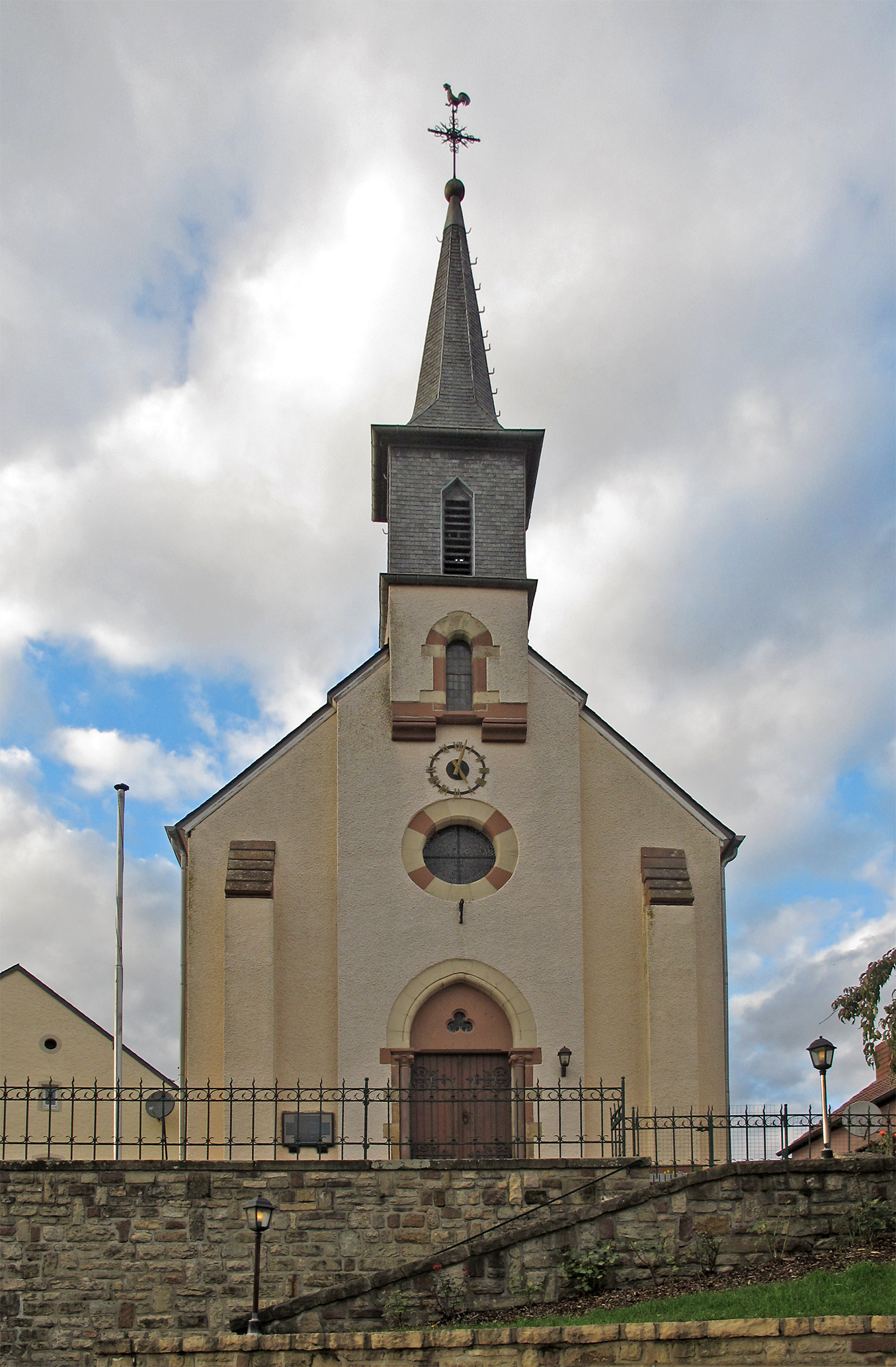 Church of Dickweiler, Luxembourg